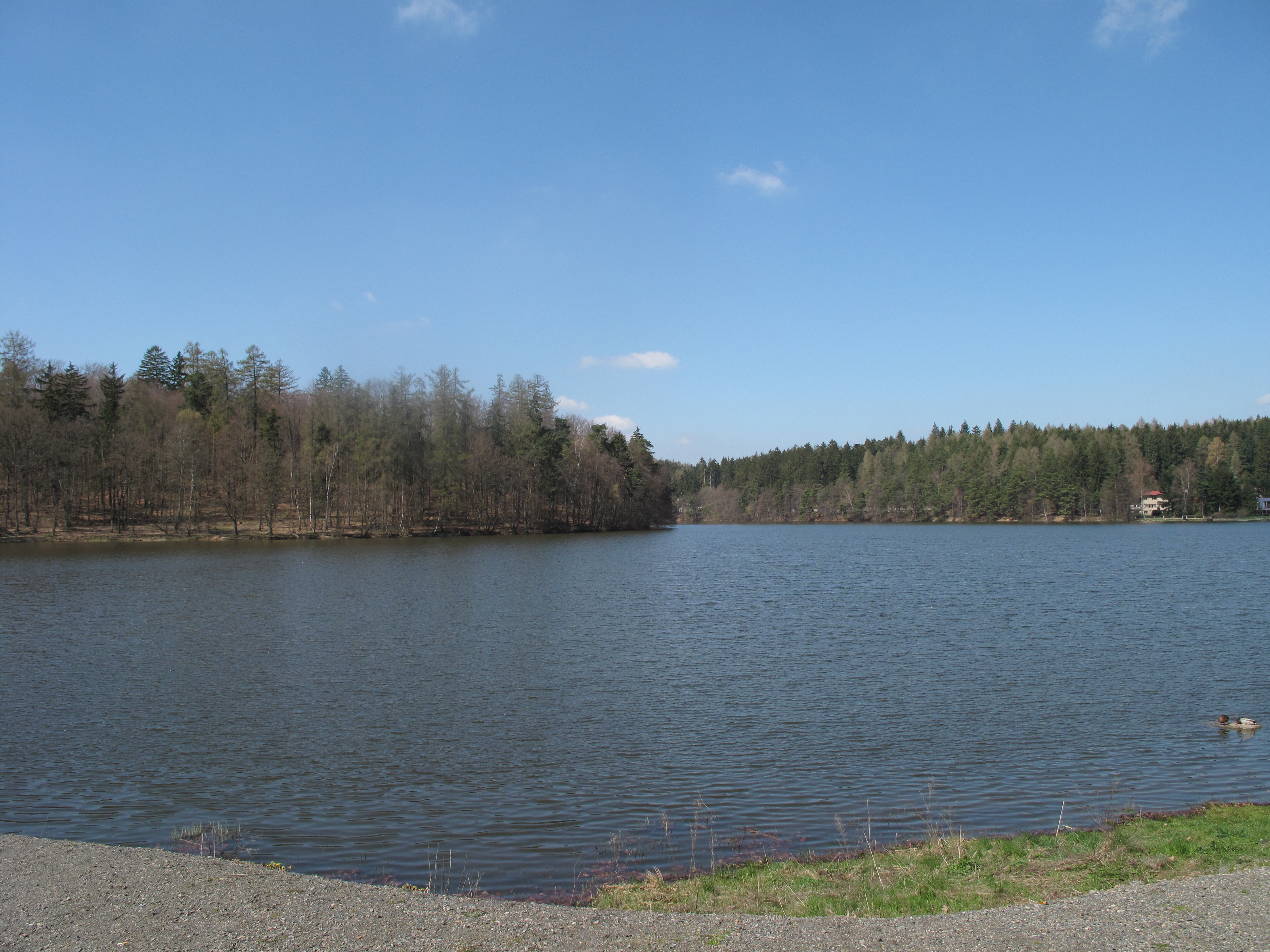 Jevanský Pond from the east, Jevany, Prague-East District, Czech Republic.